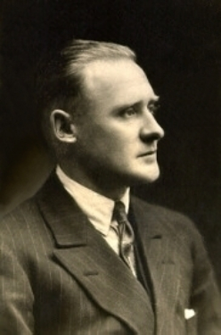 R. J. Mitchell (1895-1937). Aeronautical Designer